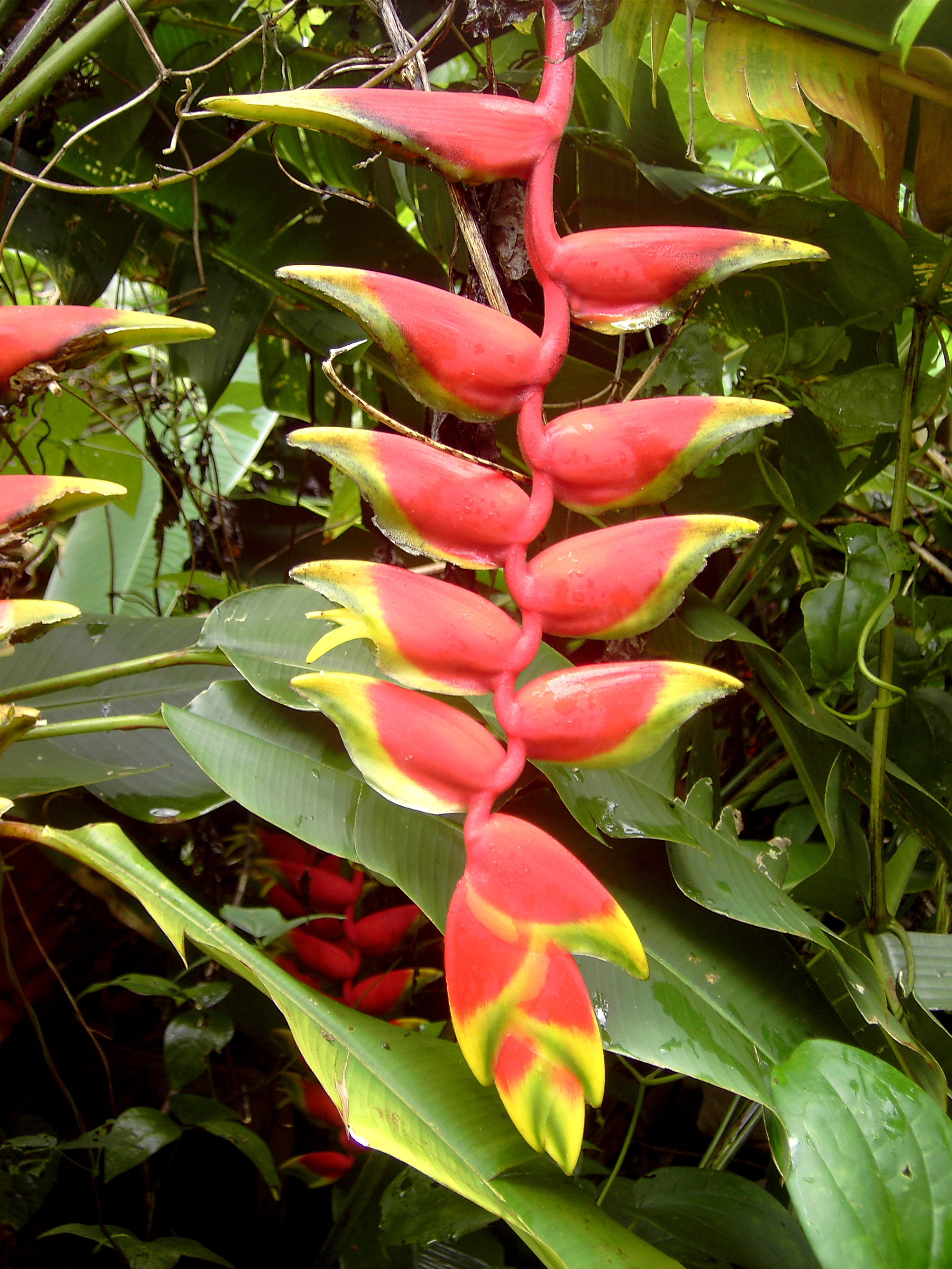 on the road between Castle Bruce and Emerald Pool, Dominica, W.I.